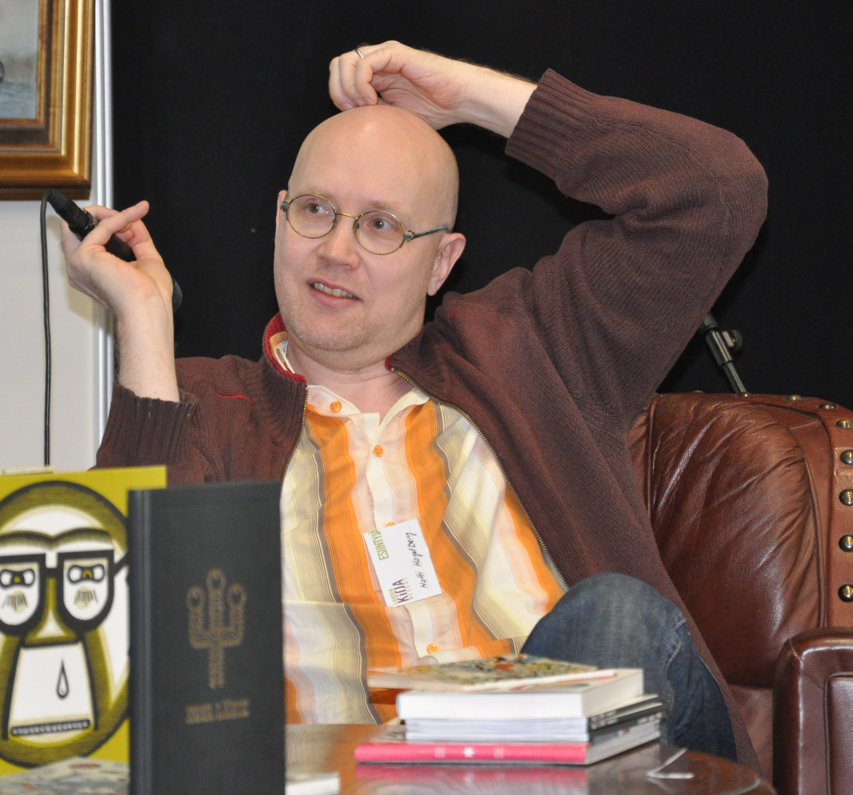 Finnish comic artist Matti Hagelberg at the Lahti Book Fair 2009.